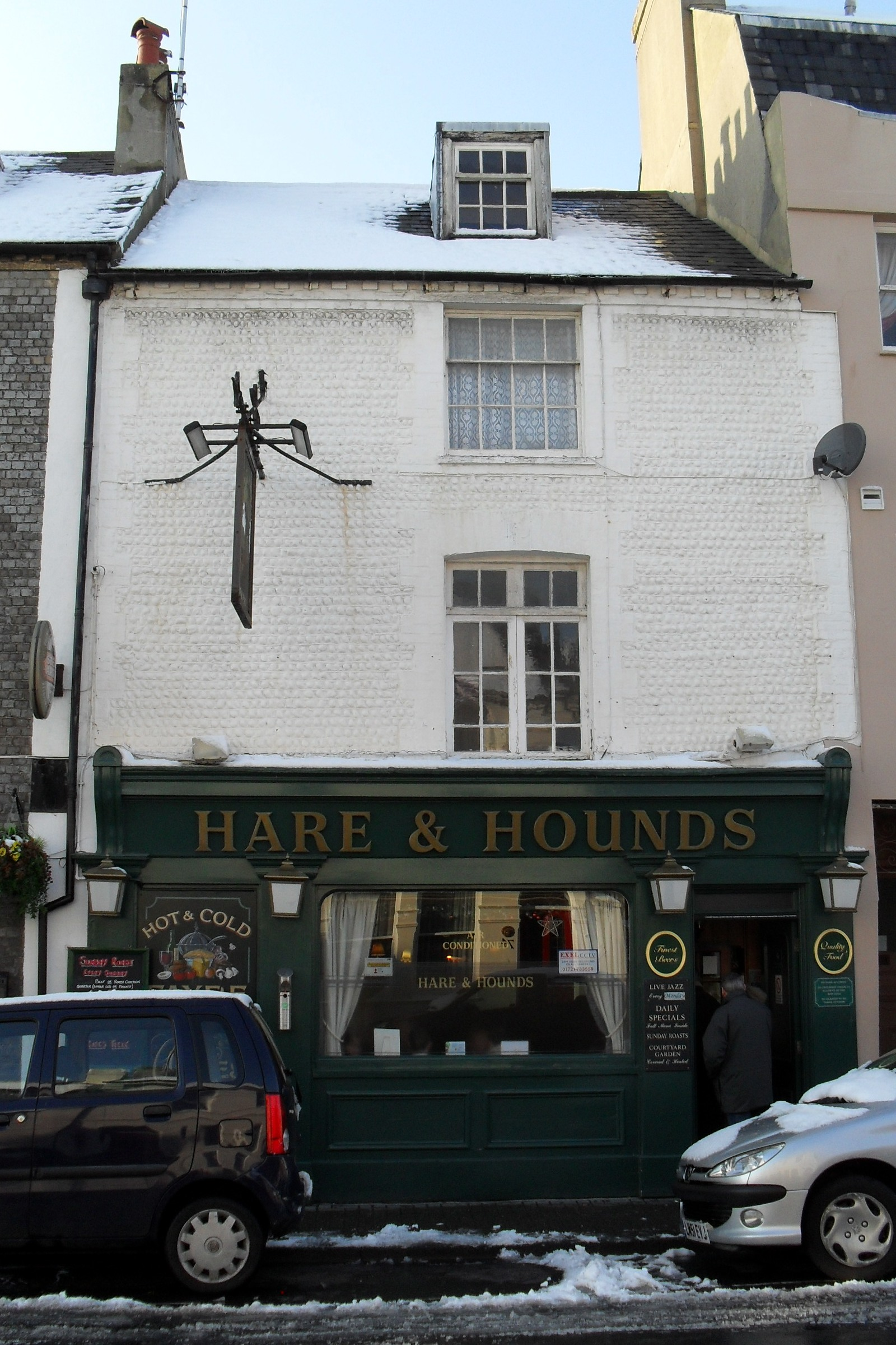 Hare and Hounds pub, 81 Portland Road, Worthing, West Sussex, England, seen from the east. A house with a facade of flint cobbles, built before 1814. The Victorian pub front added later.